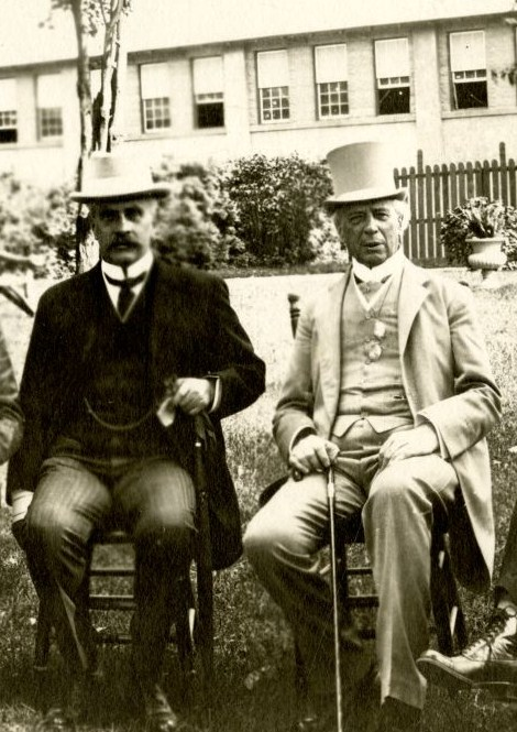 Robert Laird Borden and Wilfrid Laurier.